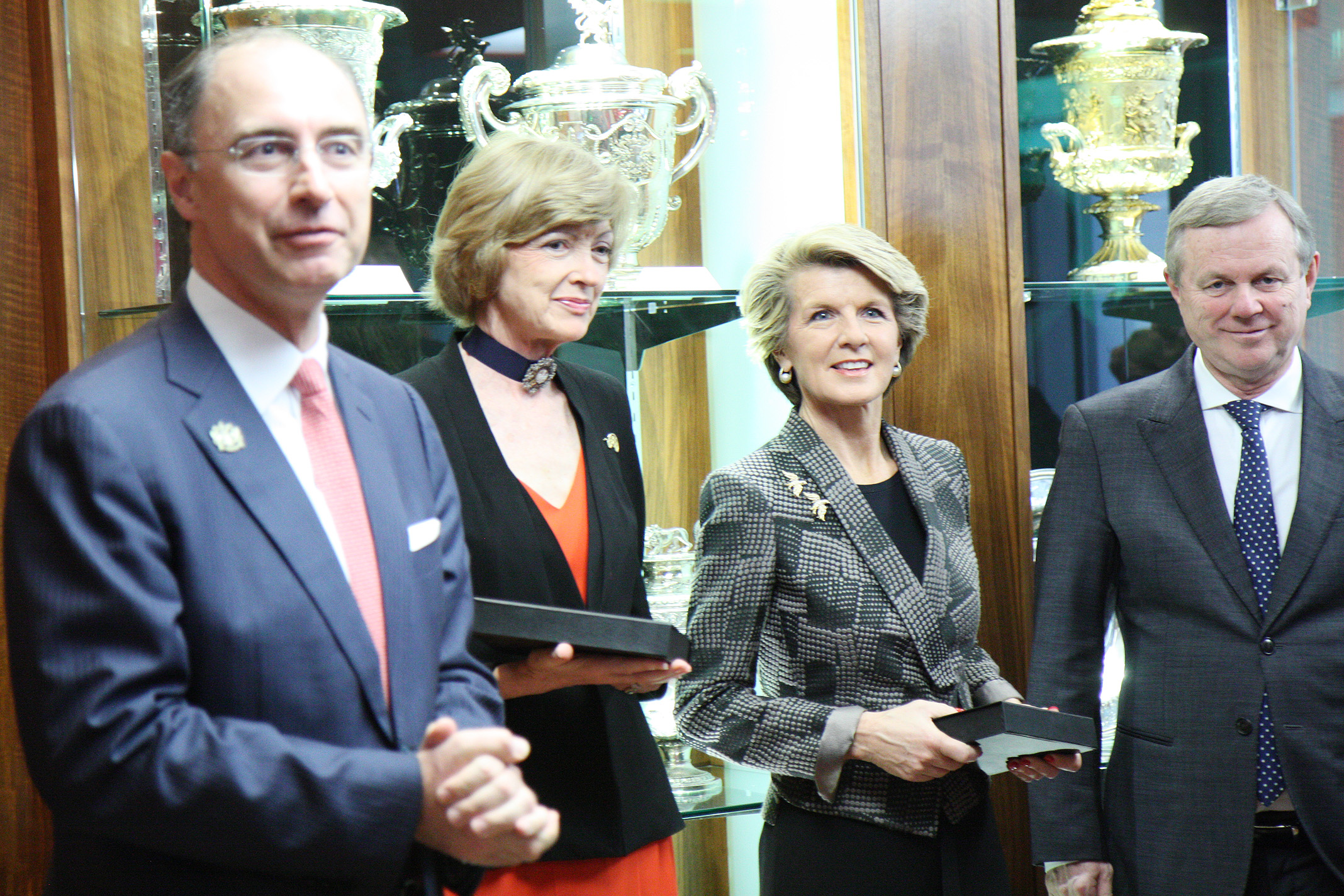 Xavier Rolet, Chief Executive, London Stock Exchange Group, Alderman Fiona Woolf, Lord Mayor of the City of London​, Julie Bishop, Australian Foreign Minister and Mike Rann, Australian High Commissioner to the United Kingdom at the London Stock Exchange, 10 March 2014.